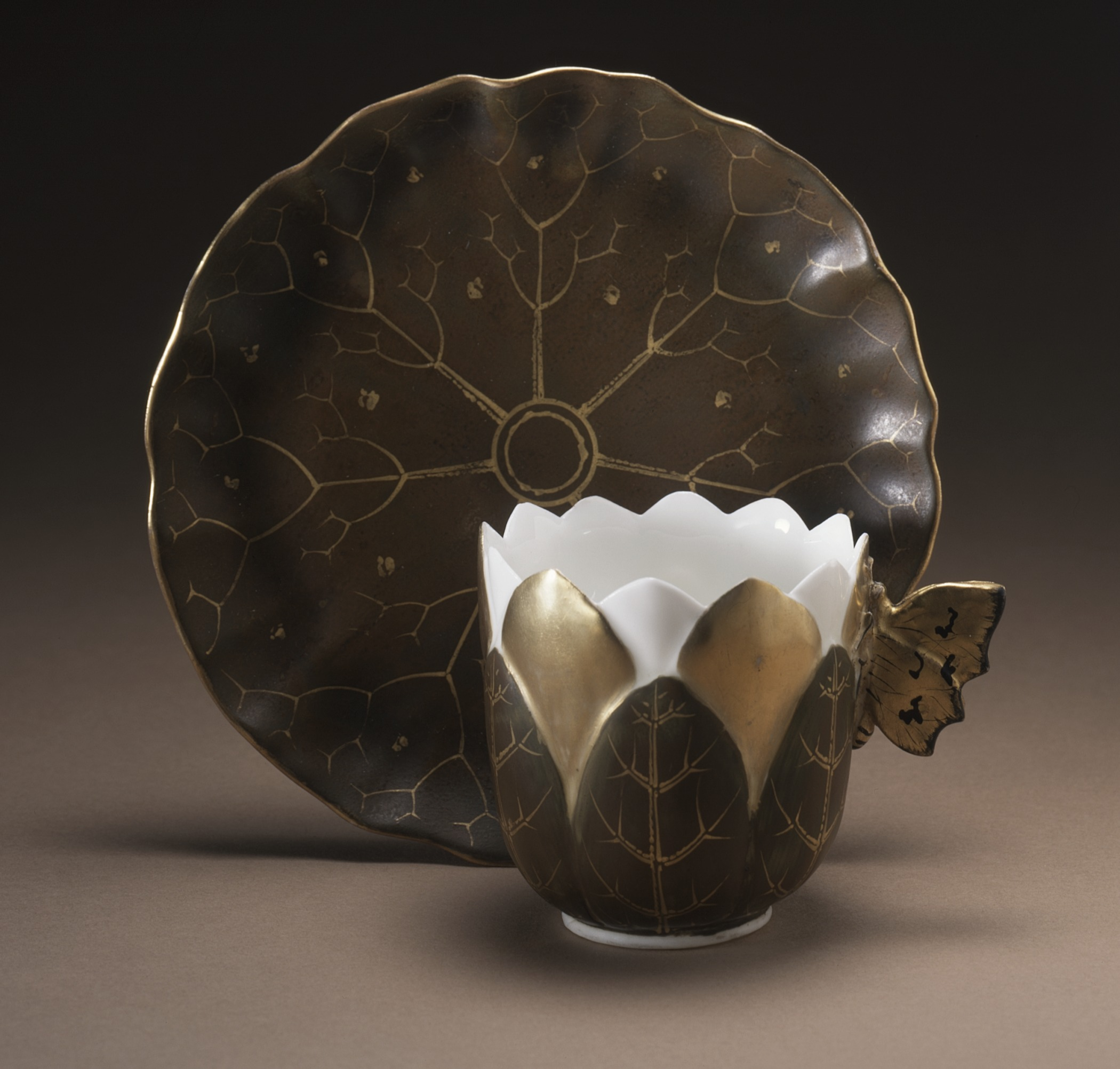 England, circa 1880 Collection: Ellen Palevsky Cup Collection Furnishings; Serviceware Hand painted and gilded porcelain Cup height: 2 3/4 in. (6.99 cm), Diameter: 2 1/2 in. (6.35 cm); Saucer diameter: 5 1/4 in. (13.34 cm) Gift of Max Palevsky (AC1998.265.13.1-.2) Decorative Arts and Design